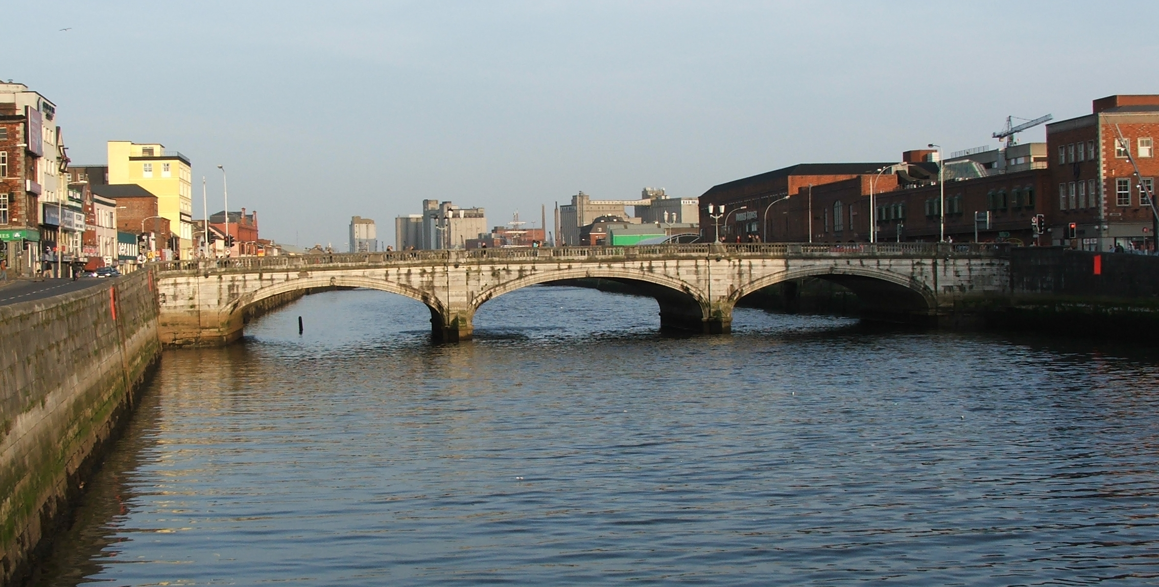 Patrick's Bridge, Cork, Ireland I believe that this bridge was engineered by Pasha (possibly short for Partick) Bernard, my Great-Great-Grandfather. If you have further information on this please email me at.